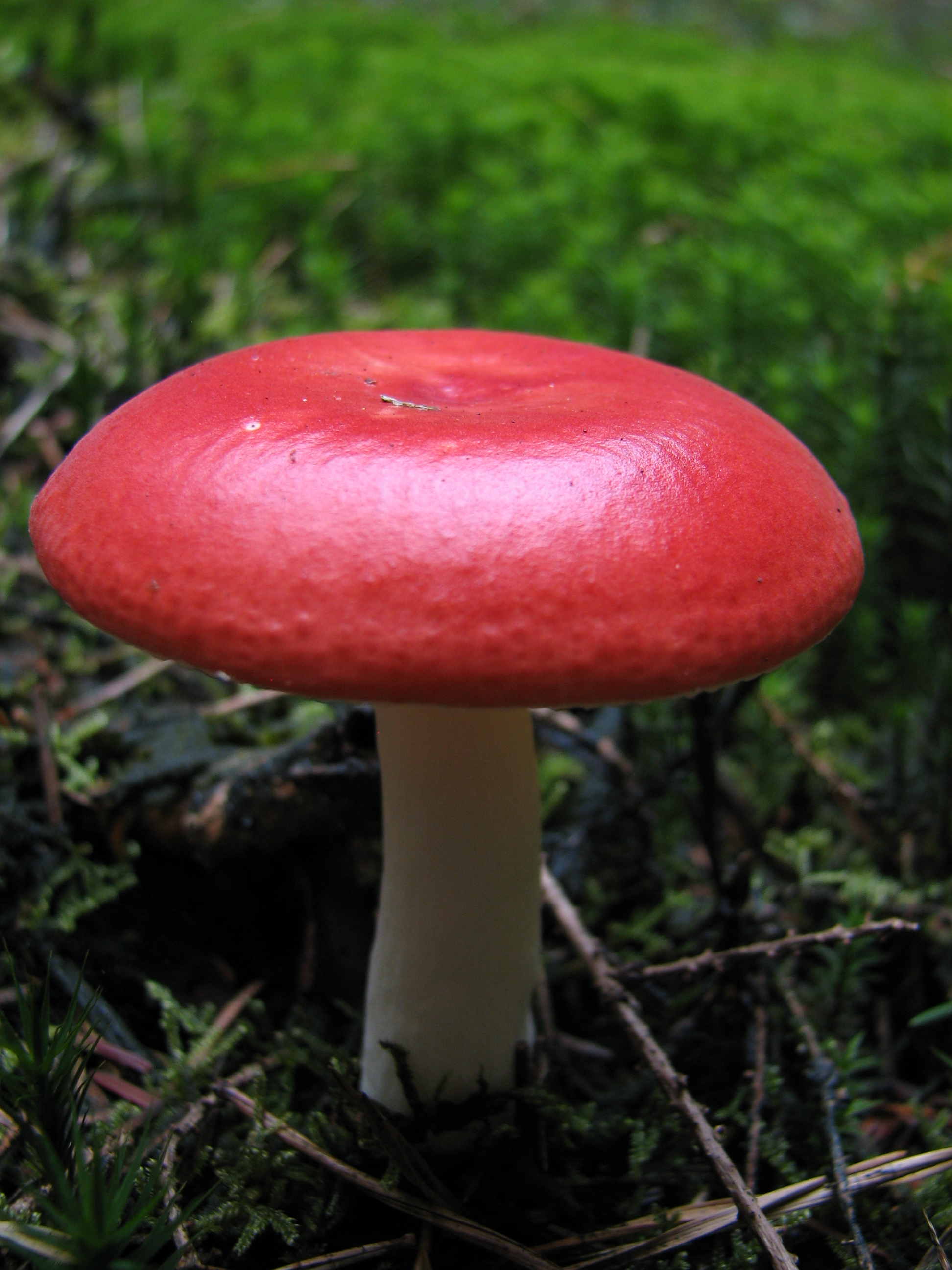 mushroom